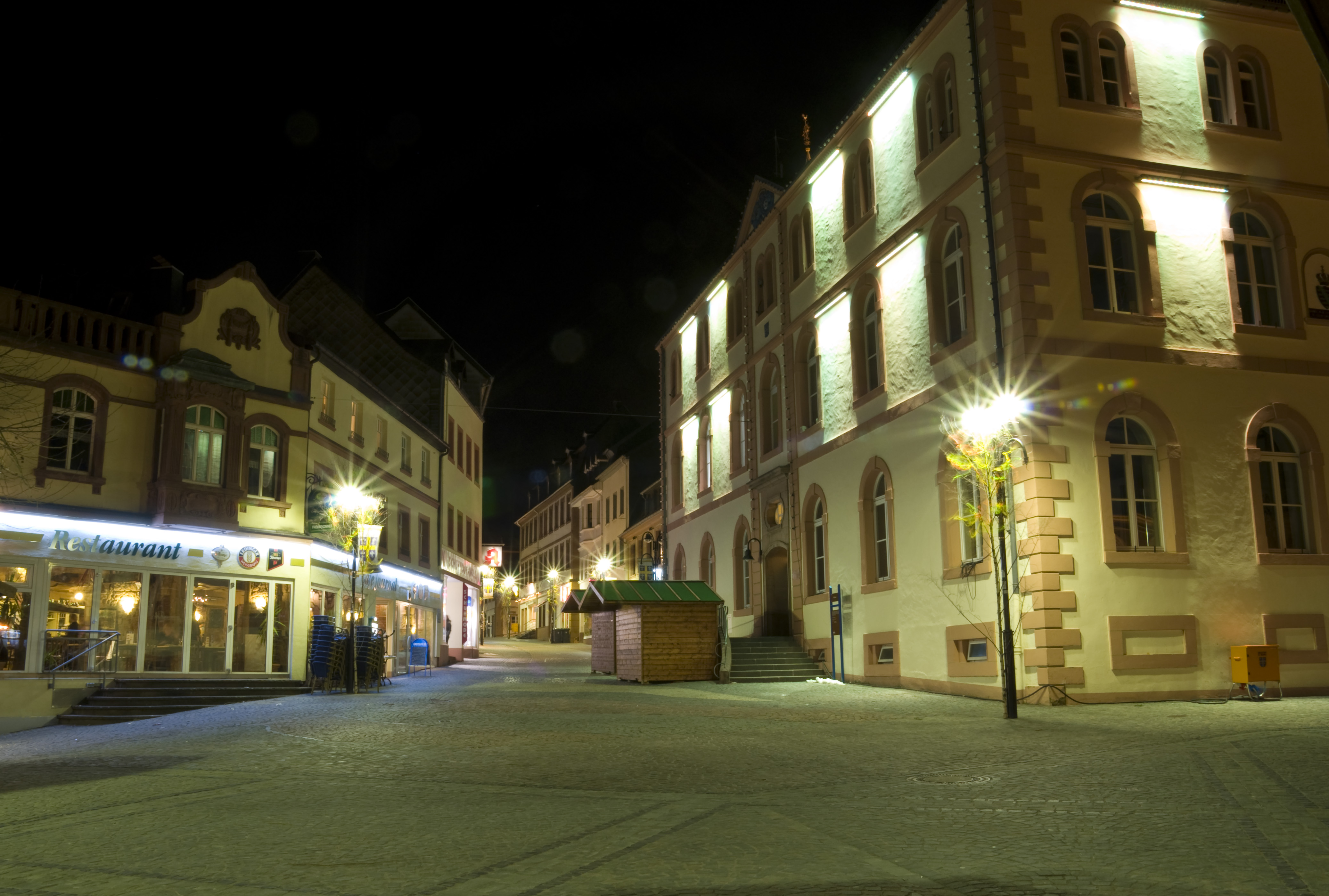 The main street of St. Wendel